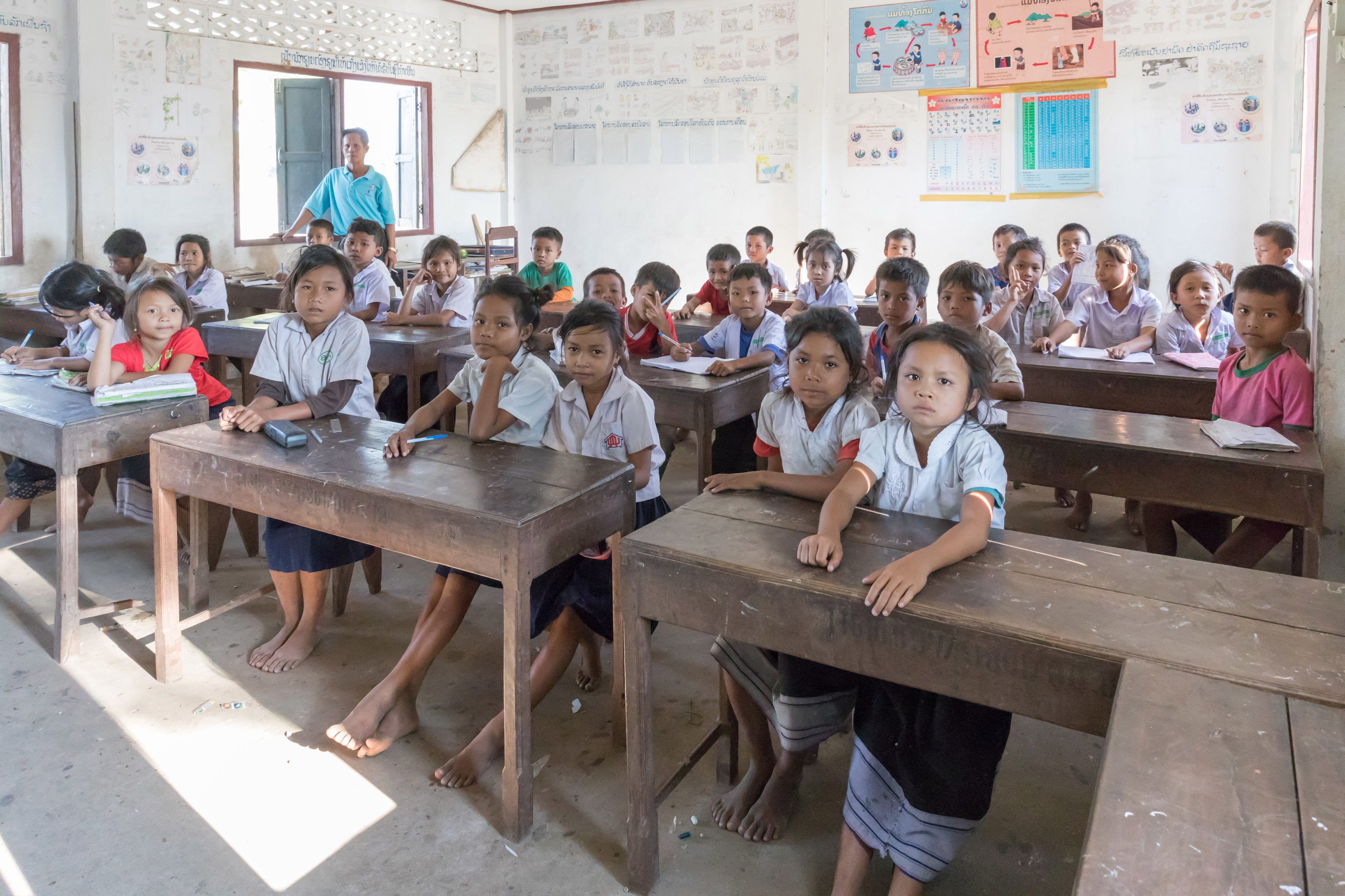 Classroom with children in the primary school of Don Puay (Si Phan Don), Laos